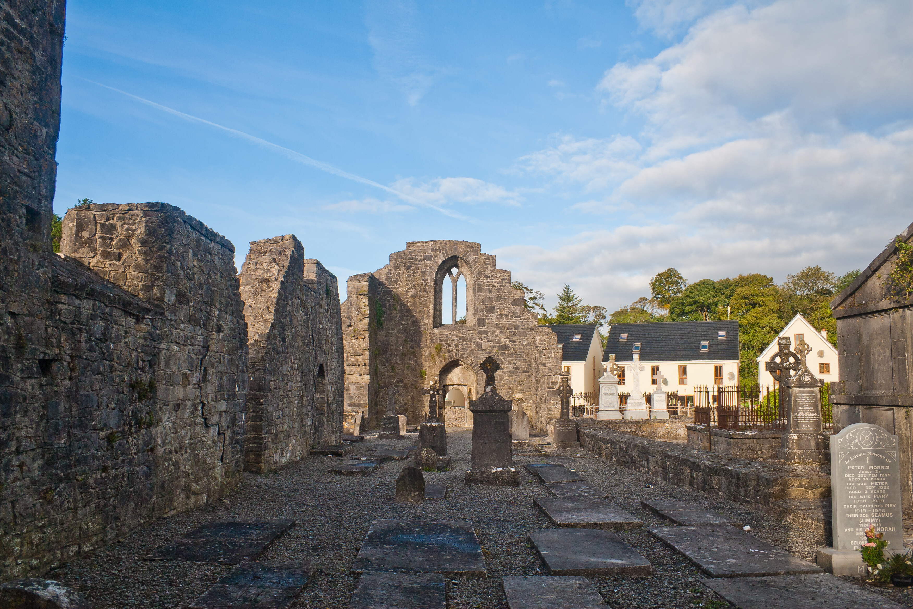 Nave of the priory, looking west.